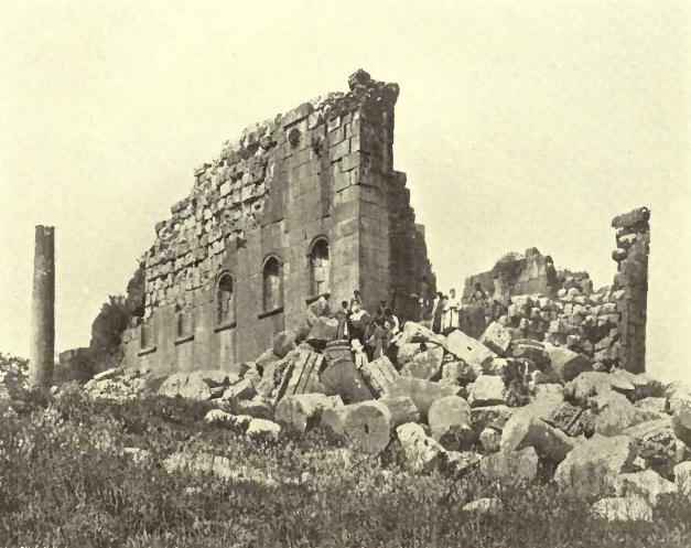 Jordan Jerash 1906